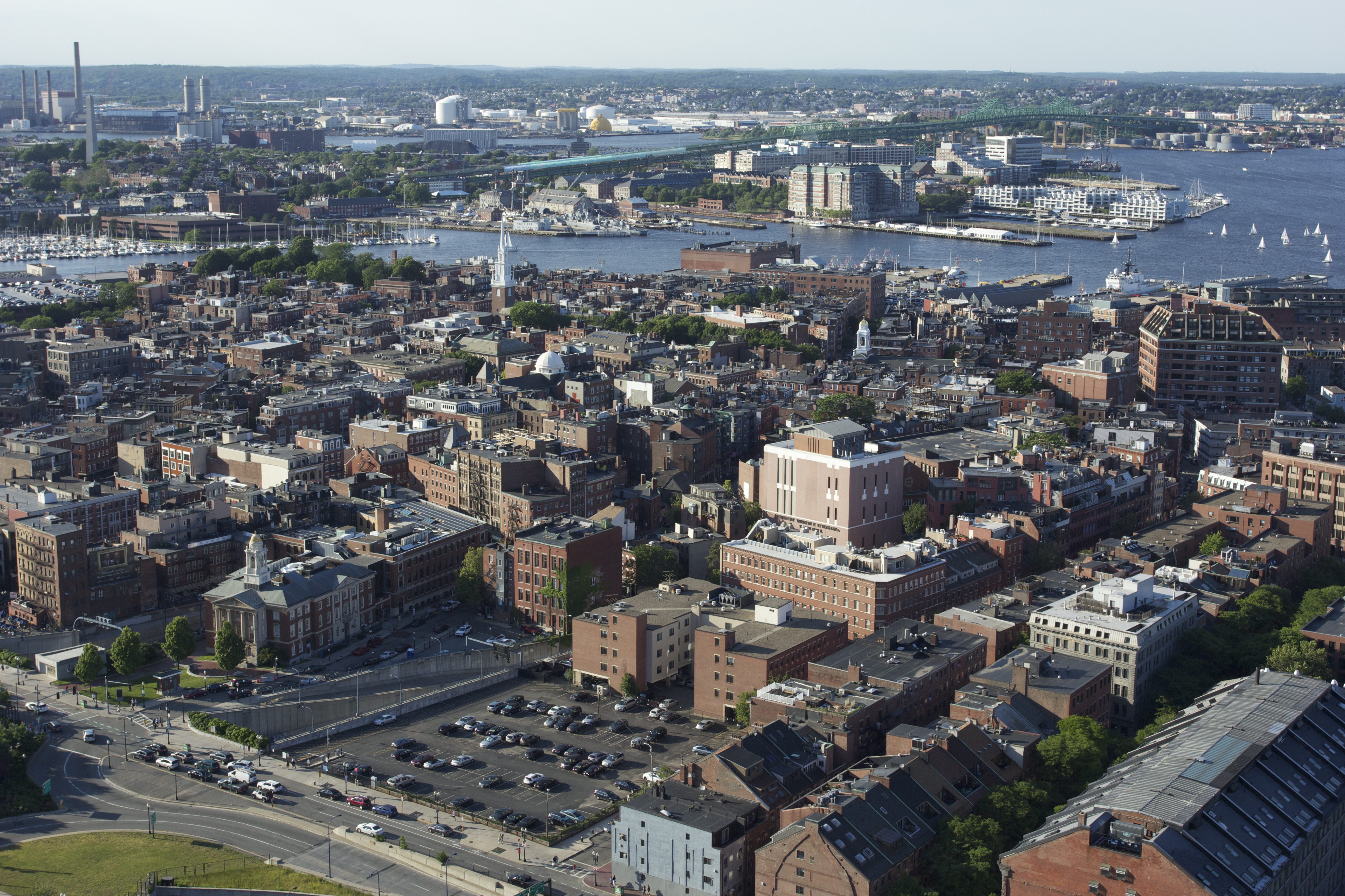 North End in Boston as viewed from the Custom House Tower